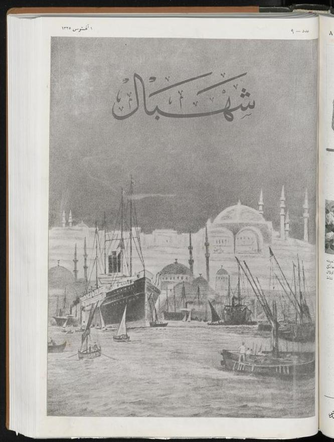 The cover of the ninth edition of the first volume of the journal "Sehbal"